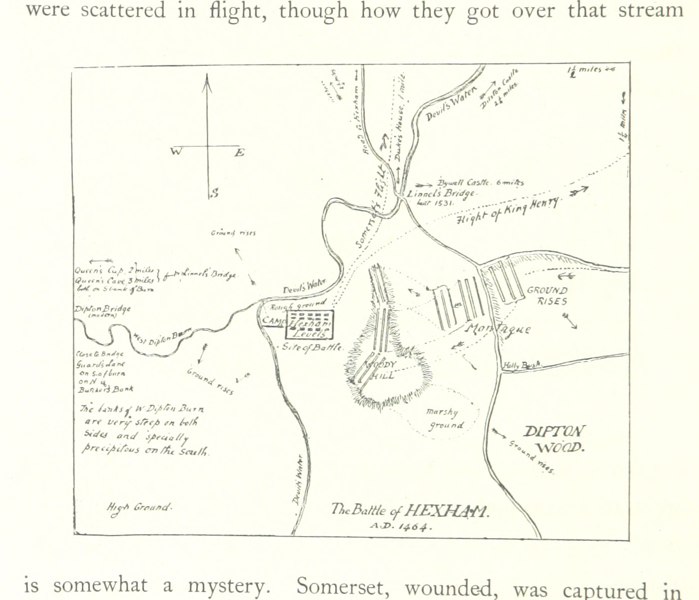 Battle of Hexham 1464 View this map on the BL Georeferencer service. Image taken from: Title: "Battles and Battlefields in England ... Illustrated by the author. With an introduction by H. D. Traill" Author: BARRETT, Charles Raymond Booth. Contributor: TRAILL, Henry Duff. Shelfmark: "British Library HMNTS 9503.ee.19." Page: 210 Place of Publishing: London Date of Publishing: 1896 Publisher: Innes & Co. Issuance: monographic Identifier: 000209253 Explore: Find this item in the British Library catalogue, 'Explore'. Download the PDF for this book (volume: 0) Image found on book scan 210 (NB not necessarily a page number) Download the OCR-derived text for this volume: (plain text) or (json) Click here to see all the illustrations in this book and click here to browse other illustrations published in books in the same year. Order a higher quality version from here.